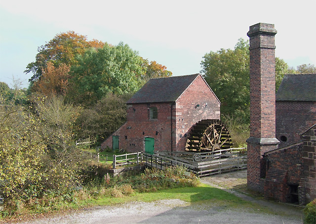 Flint Mill by the Caldon Canal, Cheddleton, Staffordshire The two mills ground up flint which was brought up from the south of England via sea, river and canal. One of the mills was originally (from the 13th century) a corn mill, but both were utilized as flint mills by the 18th century. Please for more details.